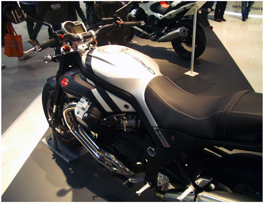 Moto Guzzi Griso 8V SE "Black Devil", official presentation at EICMA 2011